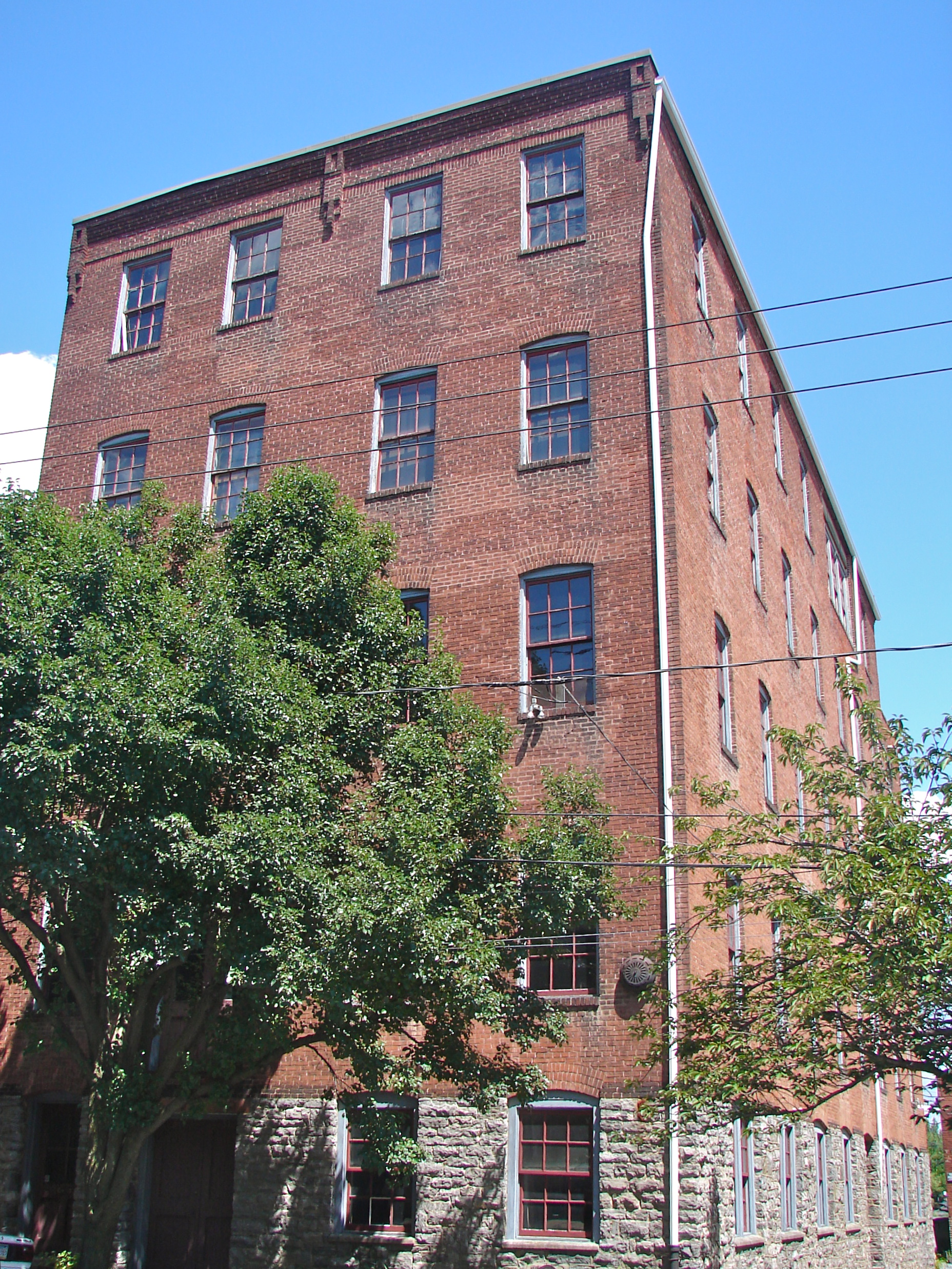 Nissly-Stauffer Tobacco Warehouses on the NRHP since August 7, 1989. At 322–324 North Arch Street and 317–319 North Mulberry Street (this photo is of Mulberry Street) in the Chestnut Hill neighborhood of Lancaster, Pennsylvania.